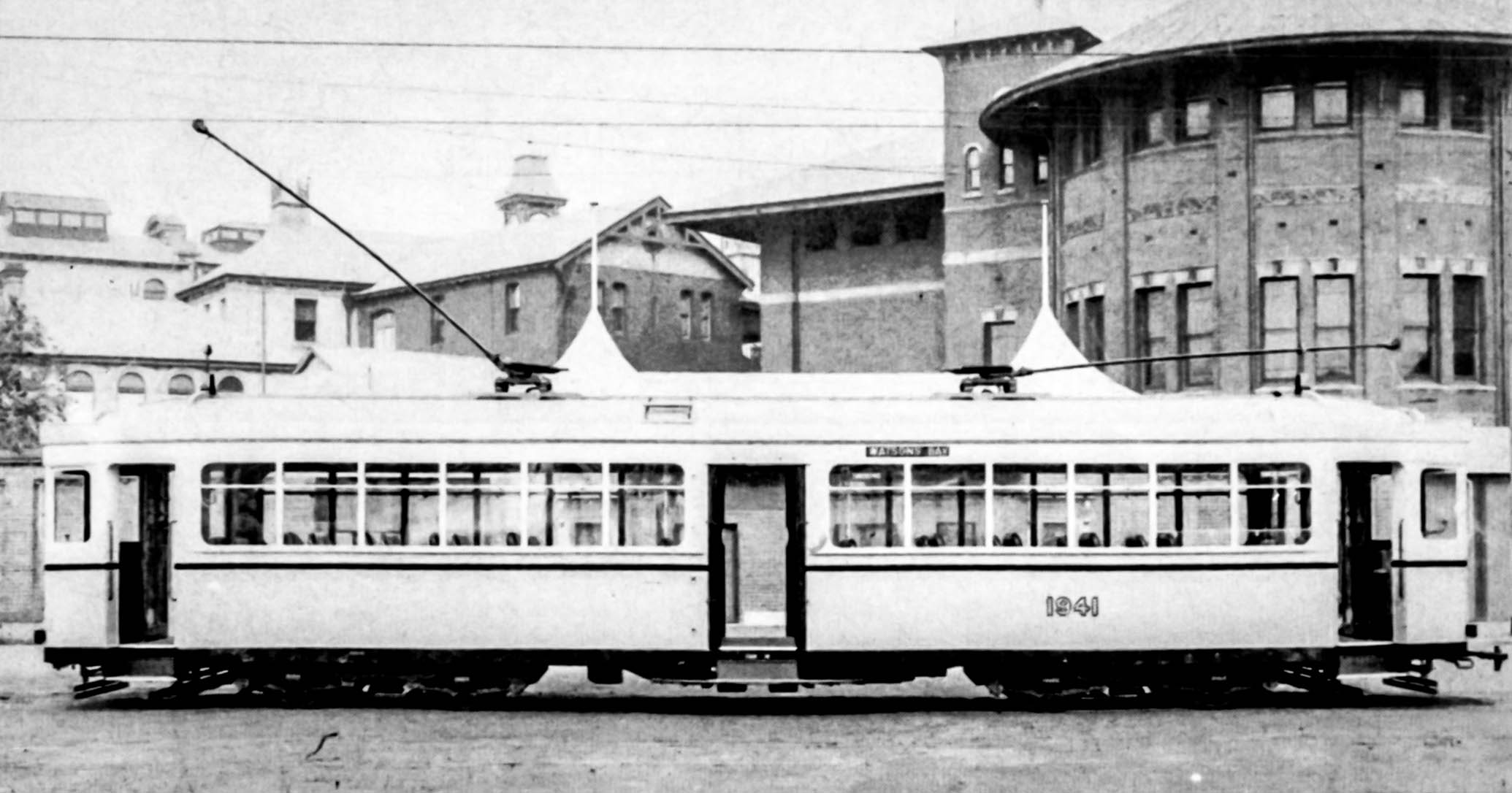 NSWDRTT R1-class Tram